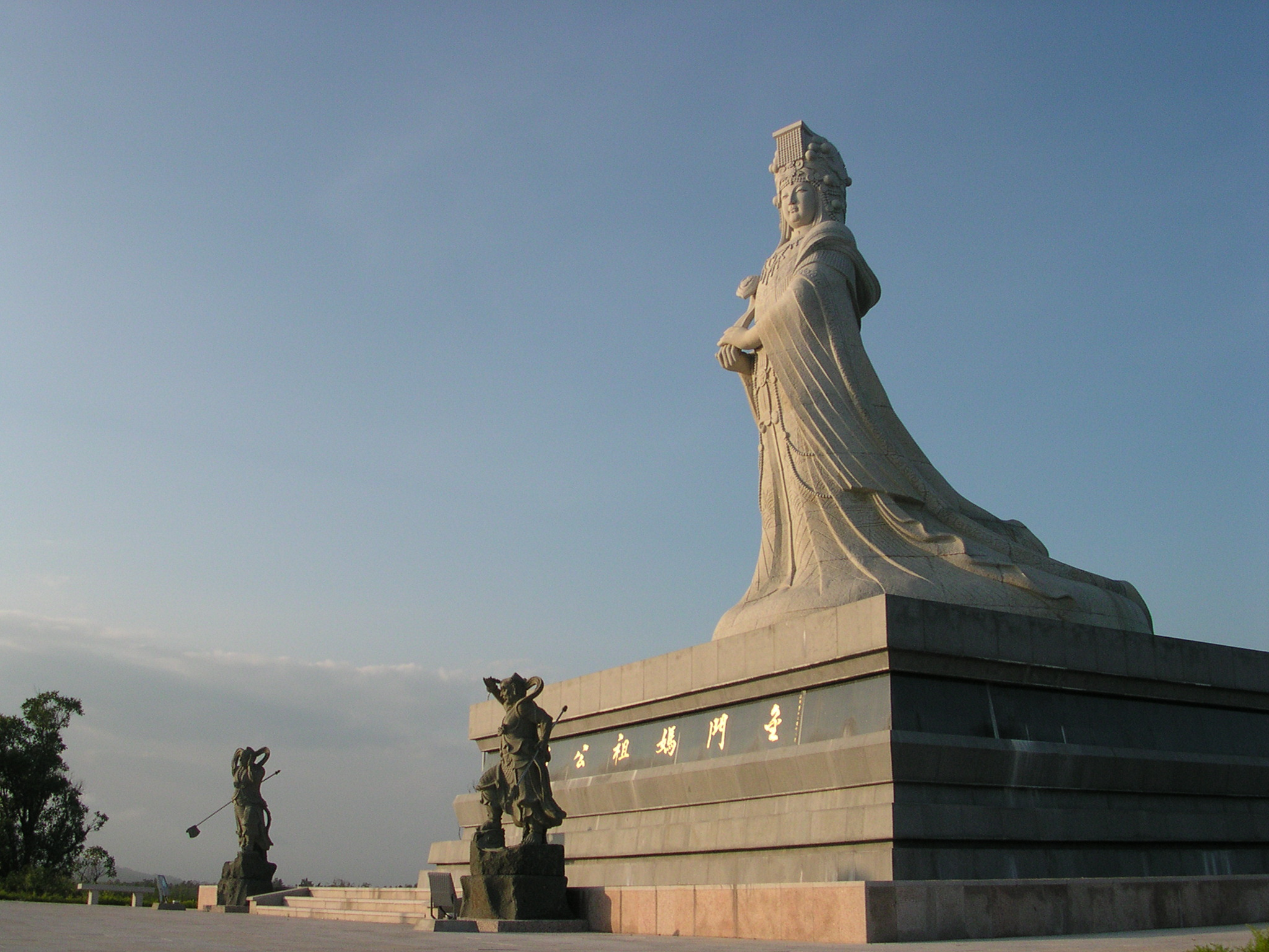 Kinmen Matsu Park